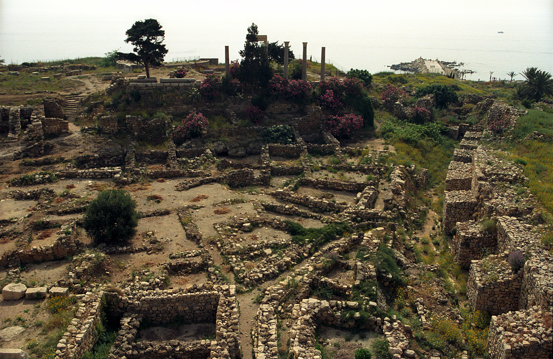 Byblos, the archaeological site